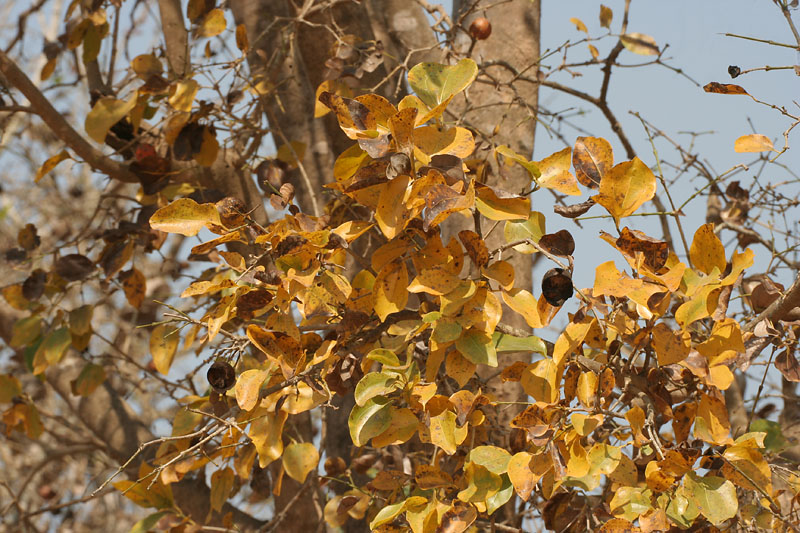 Poison Nut, Semen strychnos, Quaker Buttons, Strychnine tree or Nux vomica Strychnos nux-vomica in Kinnerasani Wildlife Sanctuary, Andhra Pradesh, India.